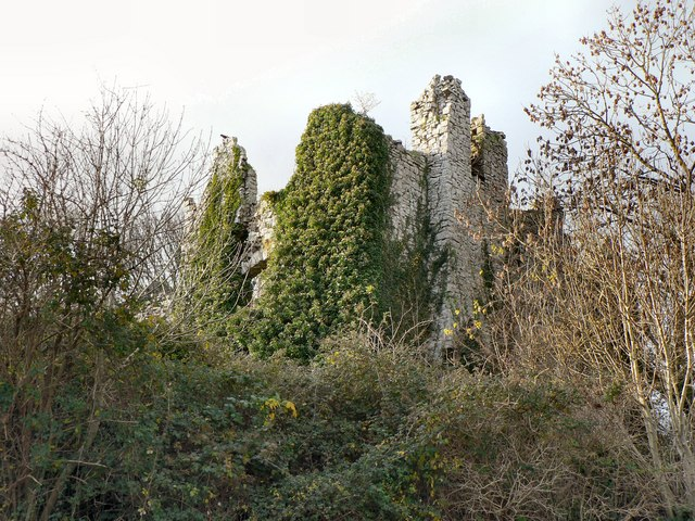 The Old Place, Llantwit Major Known also as 'Llantwit Major Castle' this is in fact an old manor house. Built in 1596 by Griffith Williams of Candleston for his son-in-Law, Edmund Van (or Vann?). The manor is built in a half-H shape of limestone. Apparently a single-pile house originally and given the forward wings, rear stair tower and forecourt walls soon after 1600. It remained with the family until 1694, when conflict between the Seys and Van families left the Vans ruined the manor then remaining home to just one old woman. It was abandoned as a house in the early 18th Century and fell into ruin and by 1874 the interior had been fully dismantled. The manor is believed to be haunted by a Dutchman and also by a lady in white. The Grade II listed building is a scheduled ancient monument and is in the Llantwit Major conservation area. The manor is owned by the Vale of Glamorgan Council.